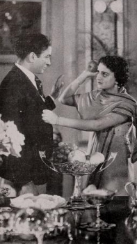 Screen ad of film Teen Sau Din Ke Baad (1938) from cine-mag Filmindia April 1938